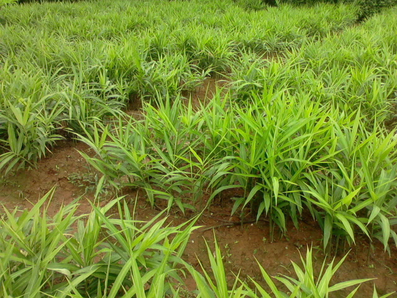 Ginger farm